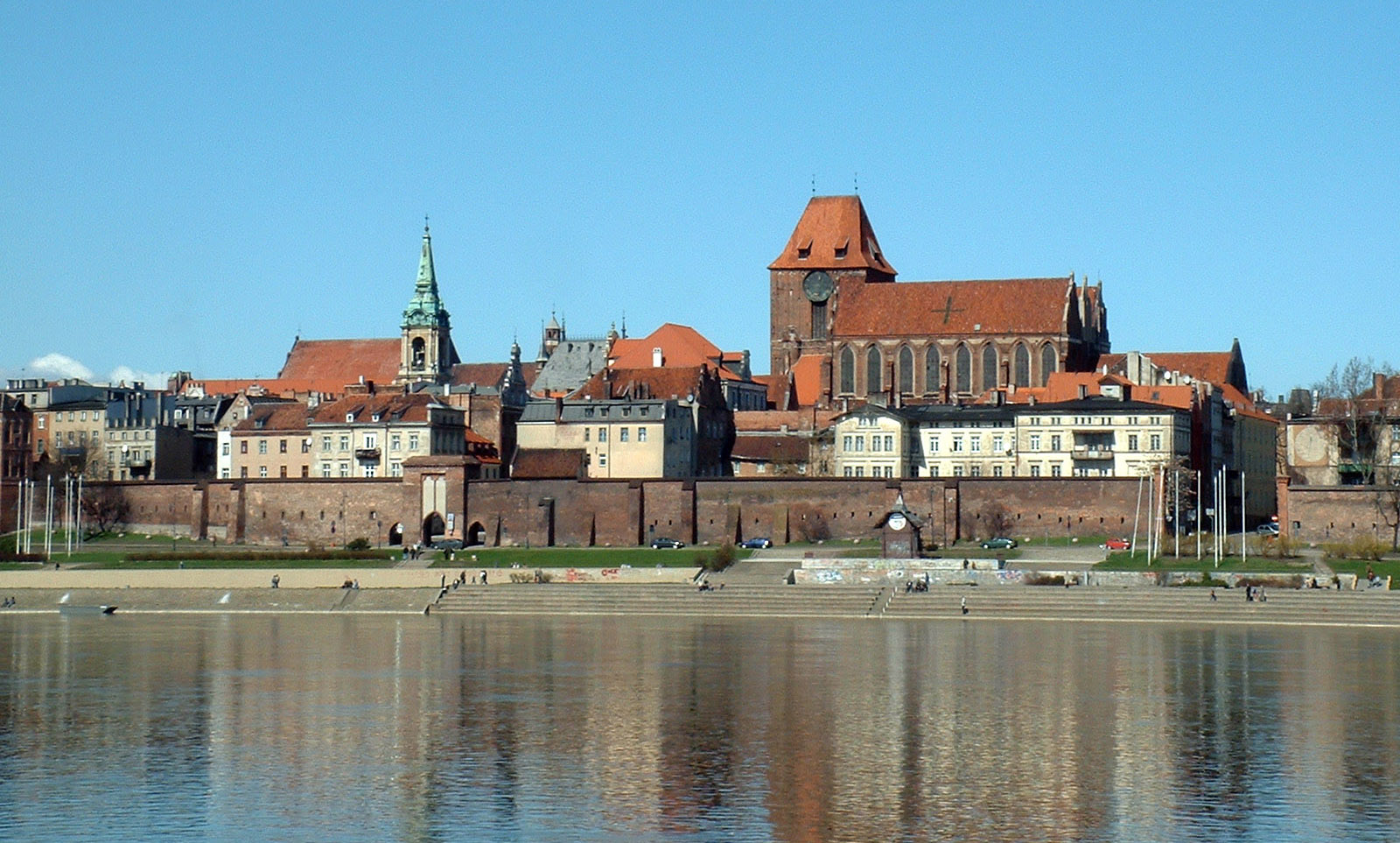 central part of town of Torun, seen from the other side of the Vistula